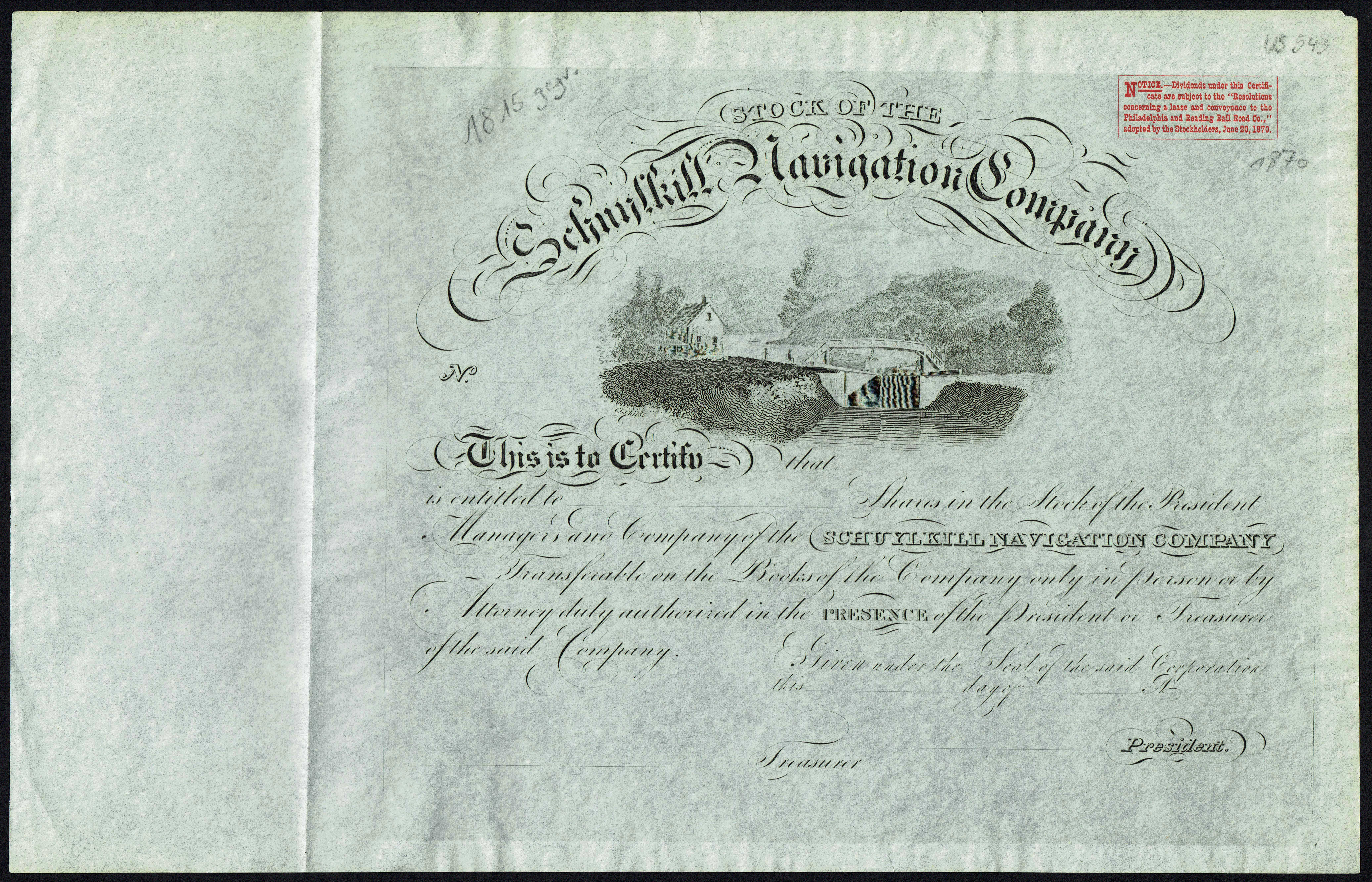 unissued share of the Schuylkill Navigation Company from about 1870